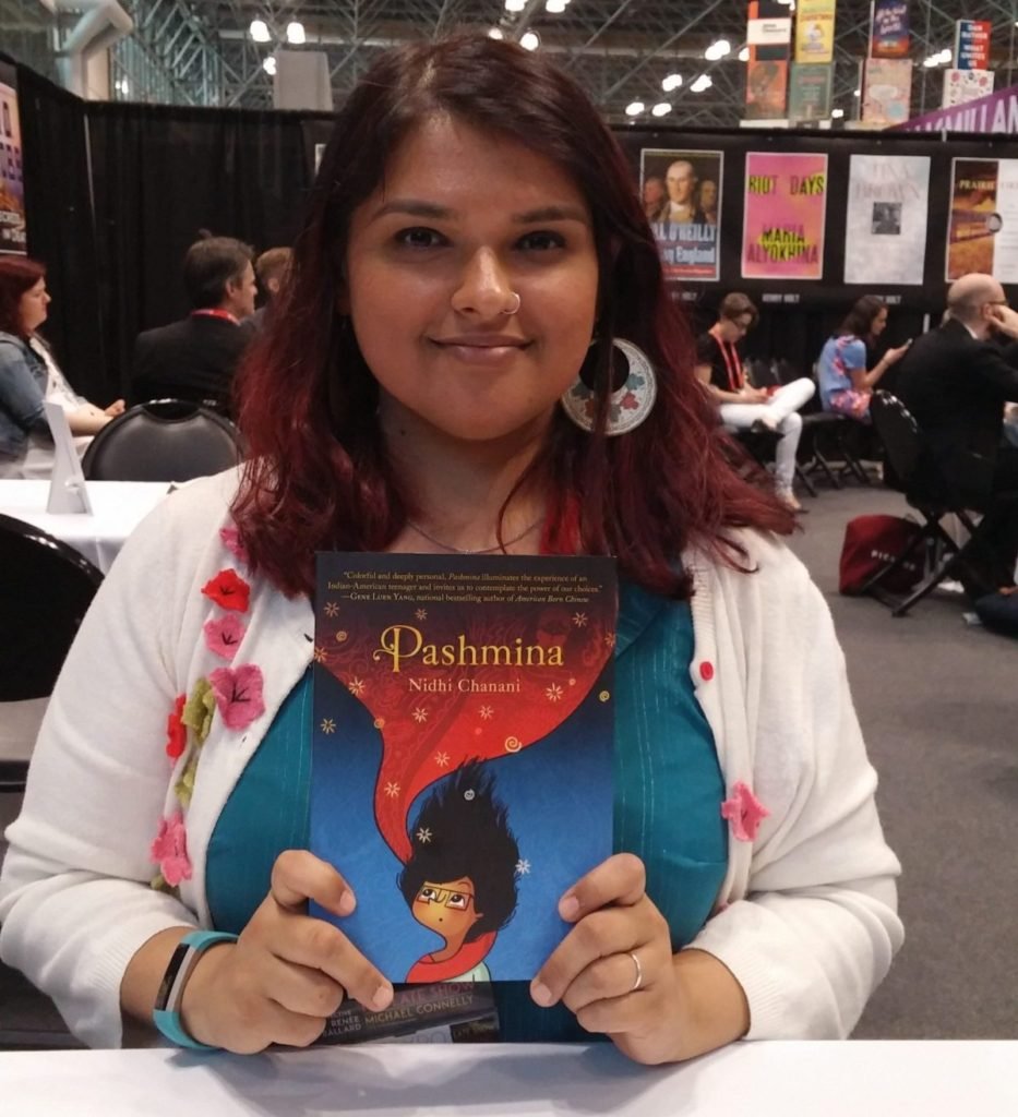 Nidhi Chanani with her book Pashmina, in 2017